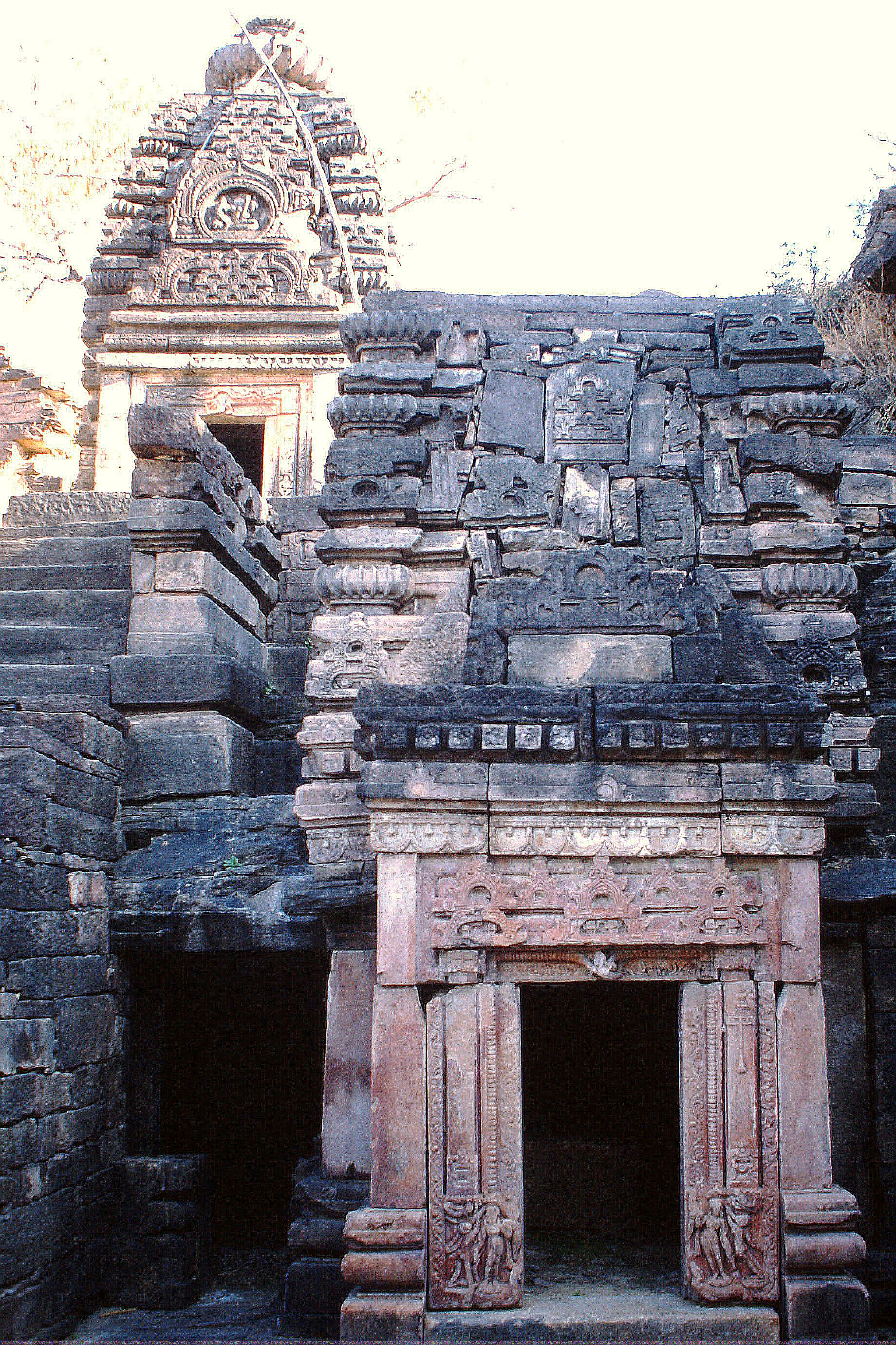 Naresar, temple no. 19 and 23